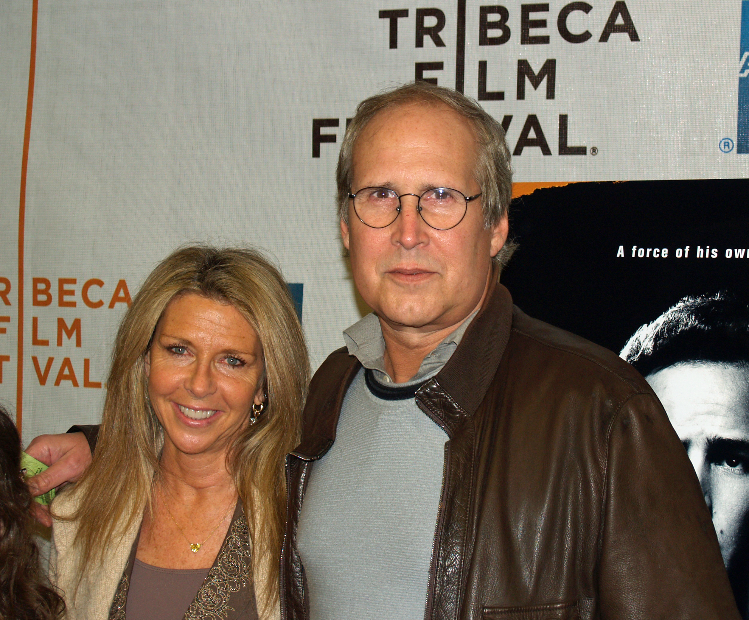 Chevy Chase and his wife Jayni